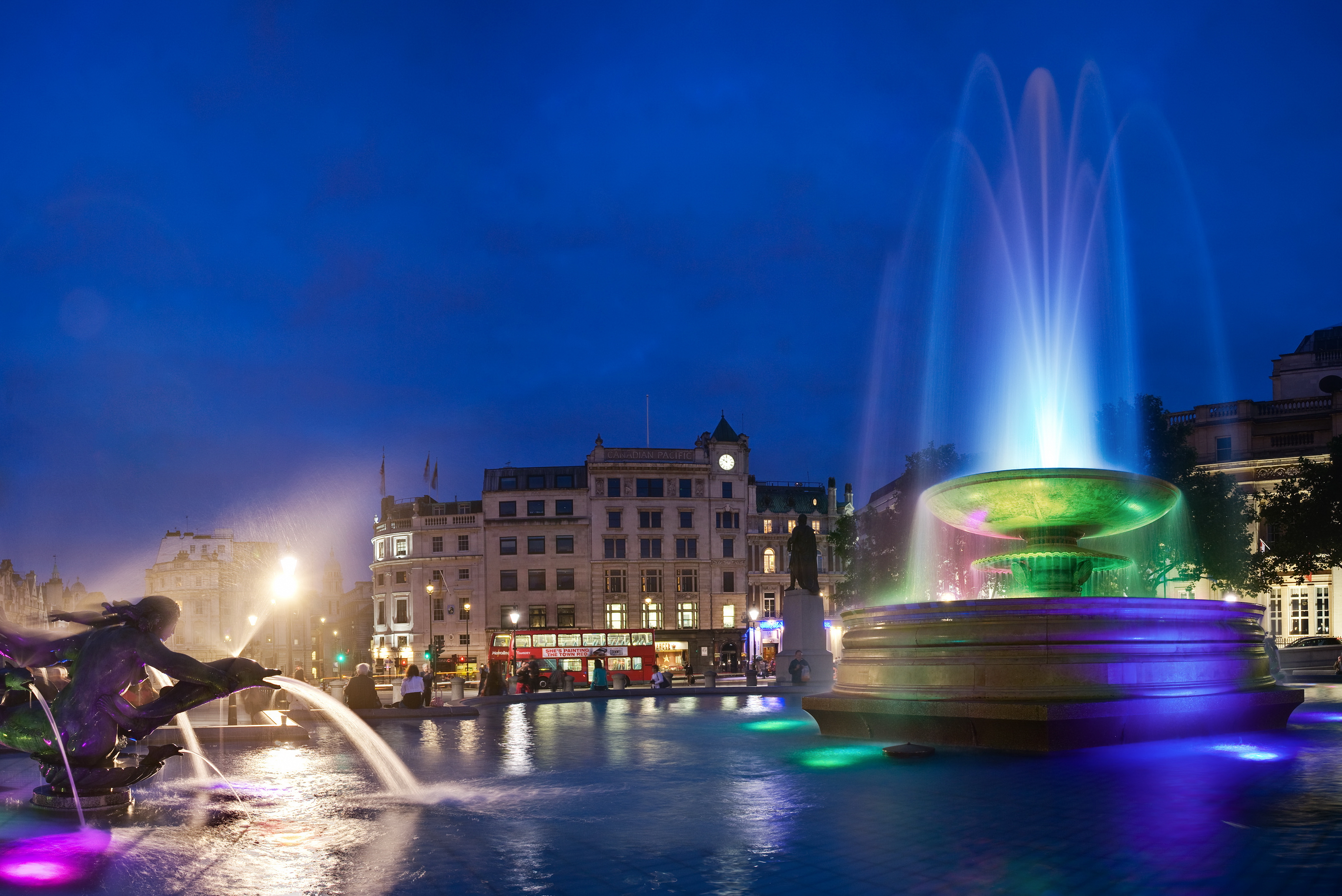 The new LED fountains of Trafalgar Square in London, England, showing the some different colours that it can project.